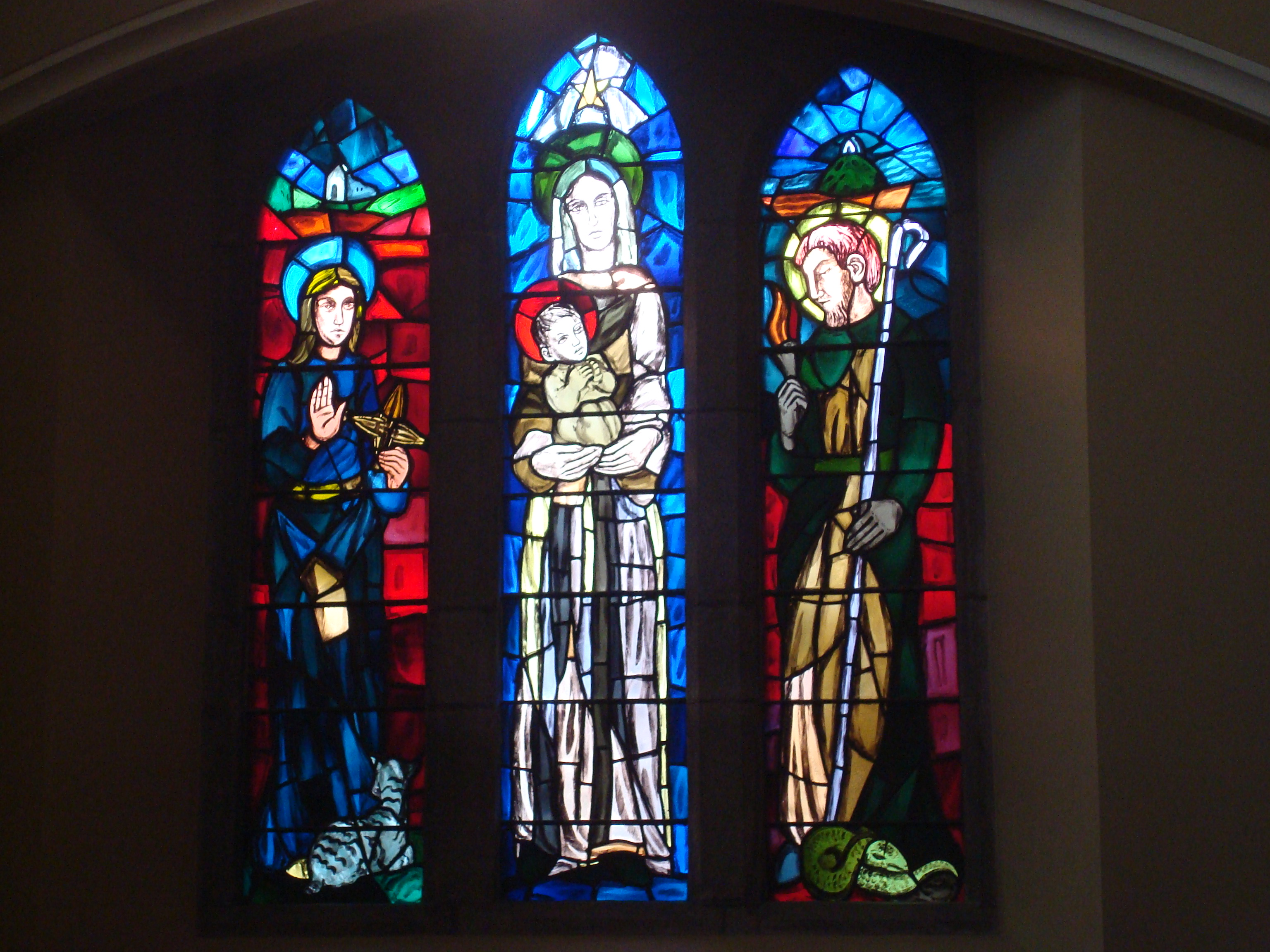 St. John the Baptist, Blackrock stained glass window